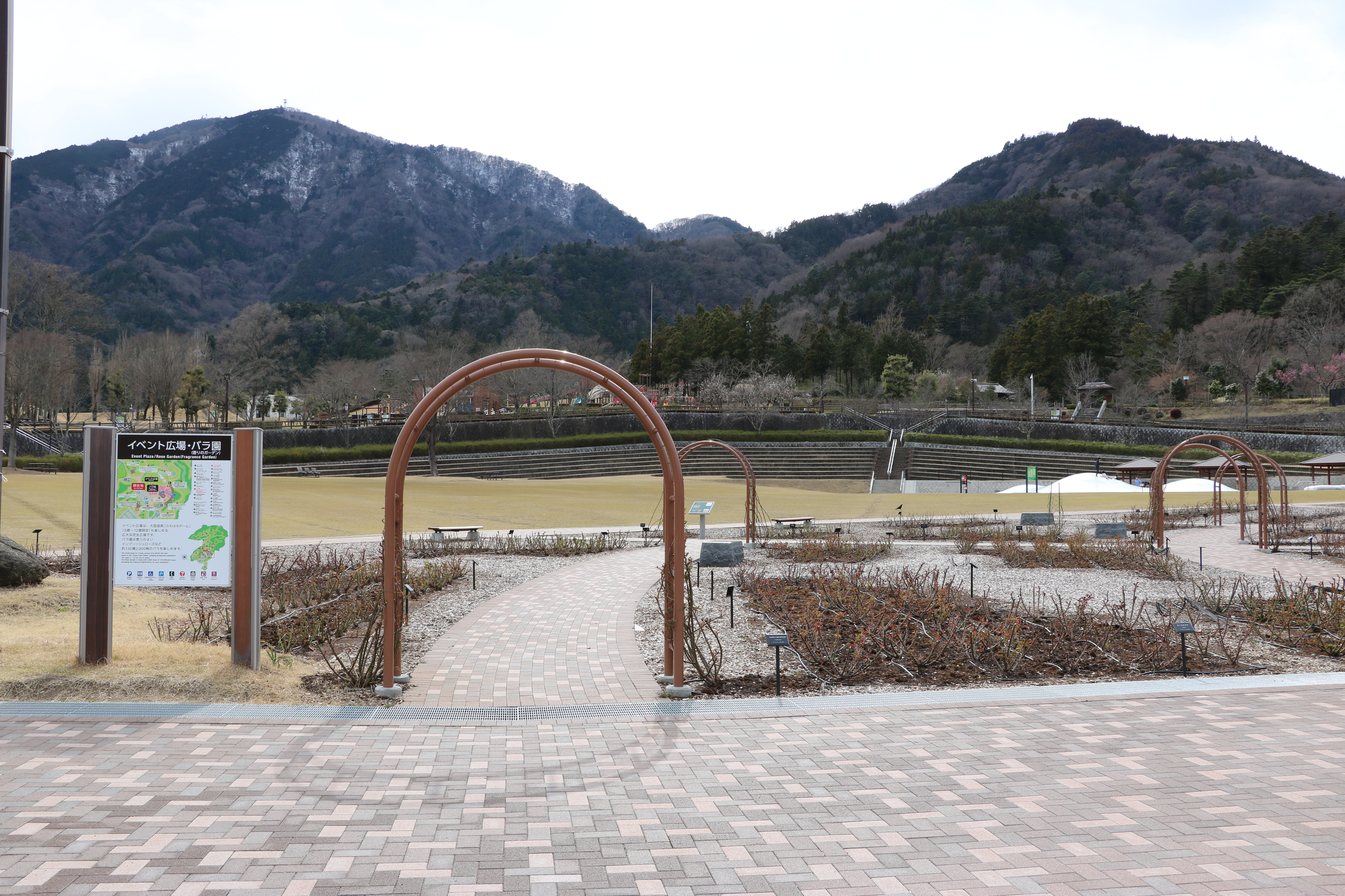 Yamanashi Fujikawa Craft Park. Event Plaza.